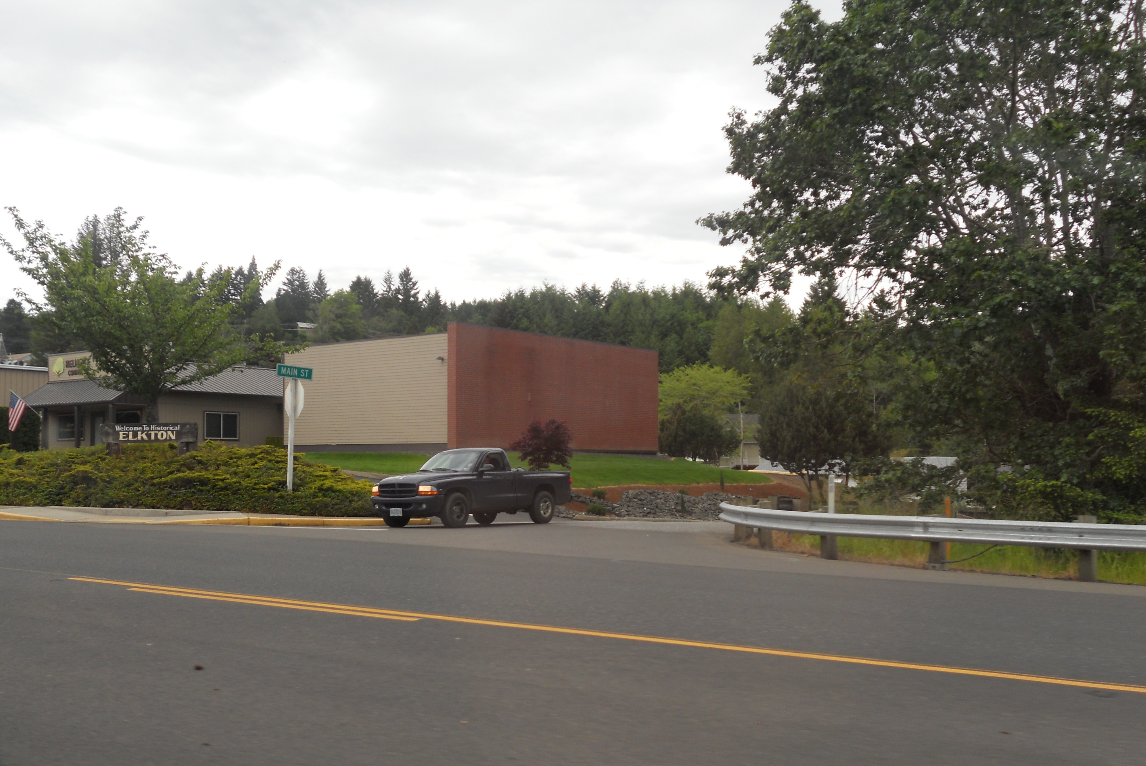 Elkton, a small city in Douglas County, Oregon, USA